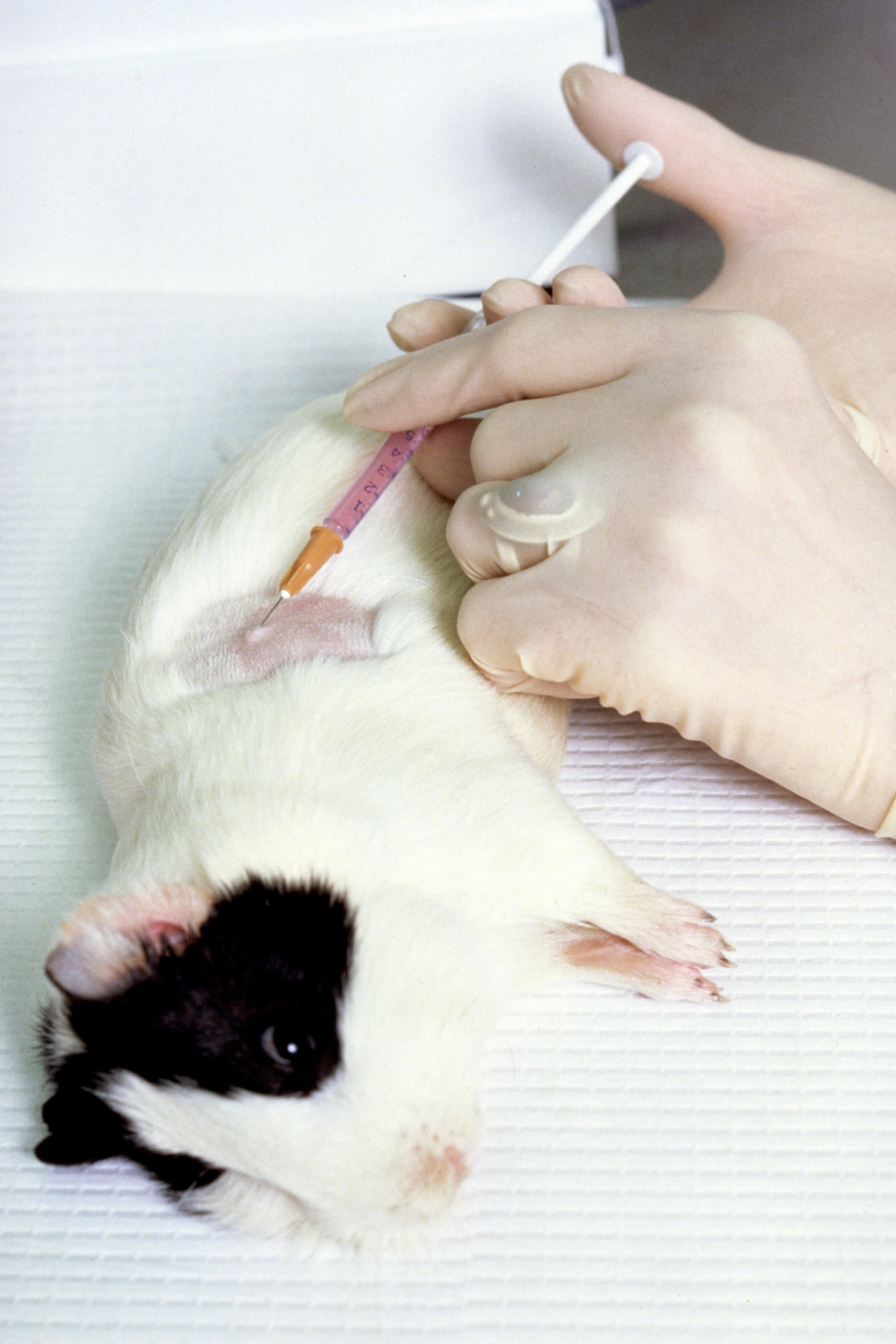 itle: Animal: Guinea Pig: Injection Description: Pictured here is an experimental guinea pig lying on a lab table. Also seen are the hands of a female technician injecting a substance into the animal. The fur around the area being injected has been shaved away, exposing the area to be injected. Perhaps a chemical is being tested for its carcinogenic effect. Subjects (names): Topics/Categories: Animal -- Guinea Pig Type: Color Slide Source: National Cancer Institute Author: Linda Bartlett (photographer) AV Number: AV-8000-0242 Date Created: 1980 Date Added: 1/1/2001 Reuse Restrictions: None - This image is in the public domain and can be freely reused. Please credit the source and/or author listed above.